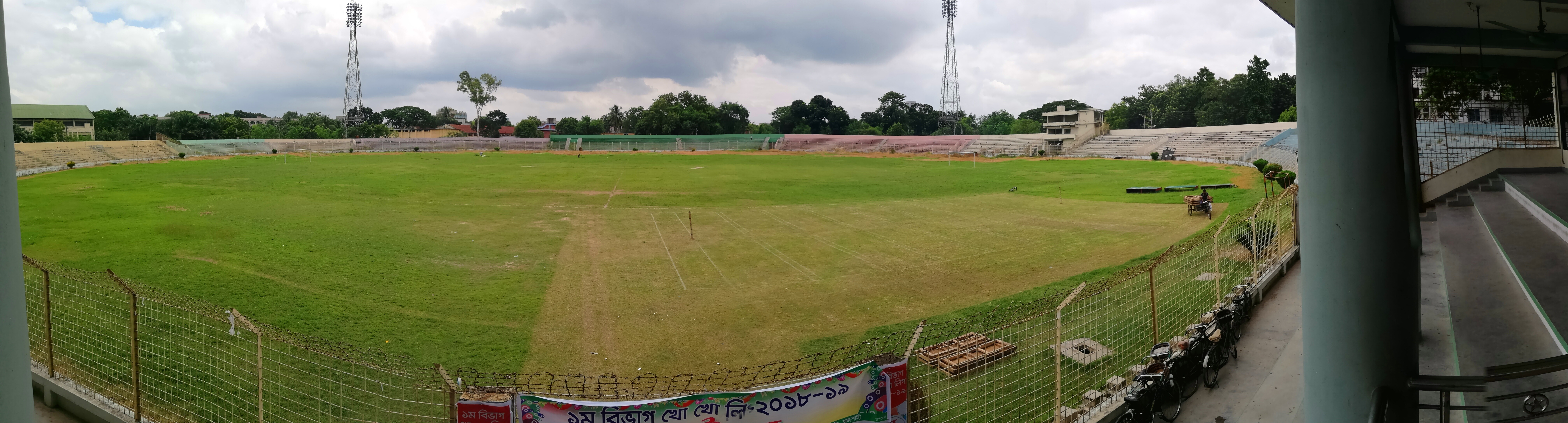 Panoramio of the outfield of Freedom Fighter(Muktijoddha) Memorial Stadium, Rajshahi